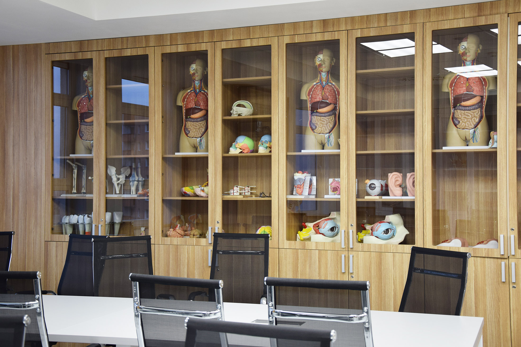 Sala seminaryjna - Wydział Medyczny UŁa